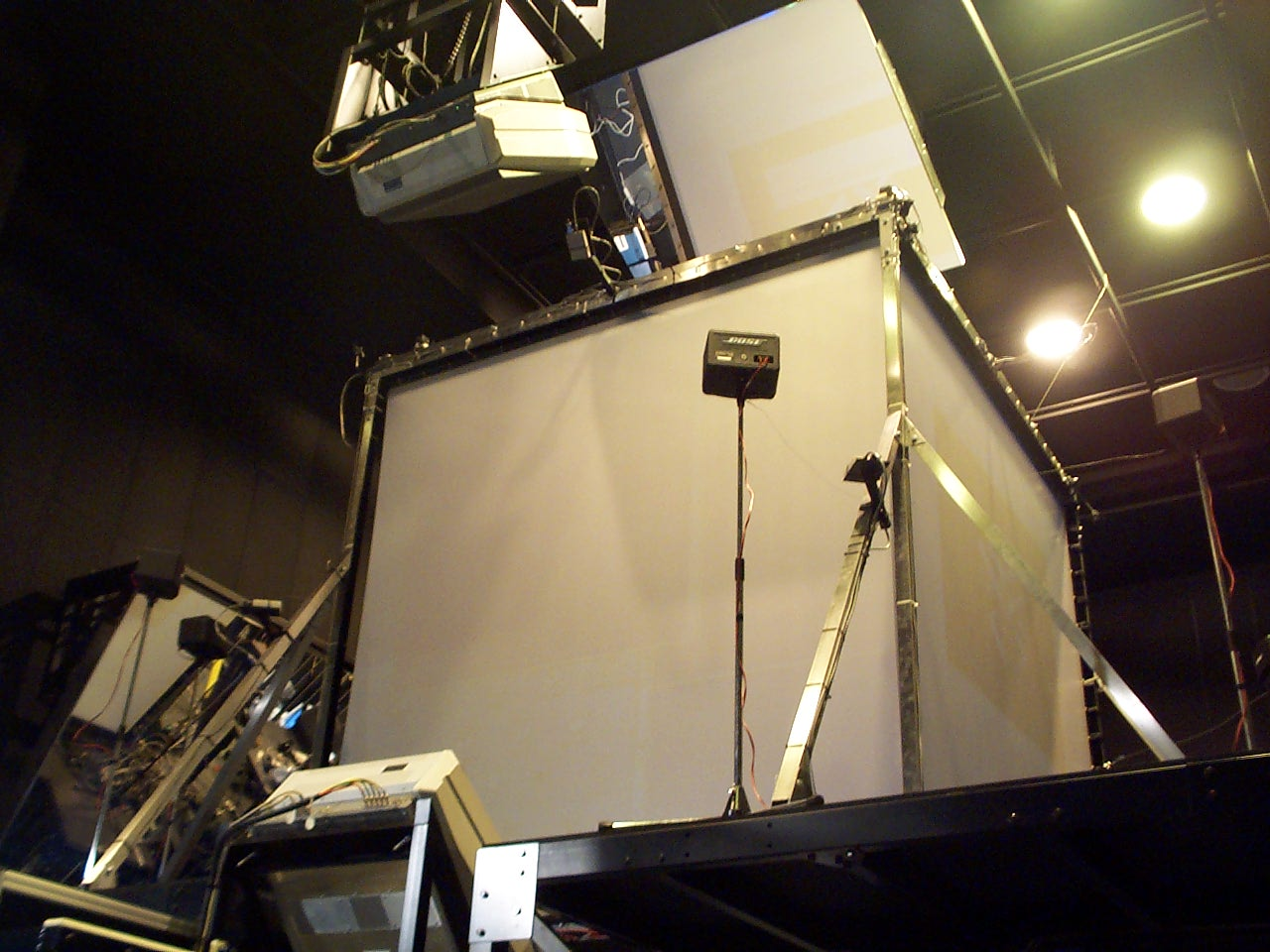 Rear view of the CABIN at Tokyo University's Intelligent Modeling Laboratory. The CABIN is a 5-screen CAVE system. Visible here are the ceiling-mounted projector and mirror, for images projected on the ceiling of the CABIN.